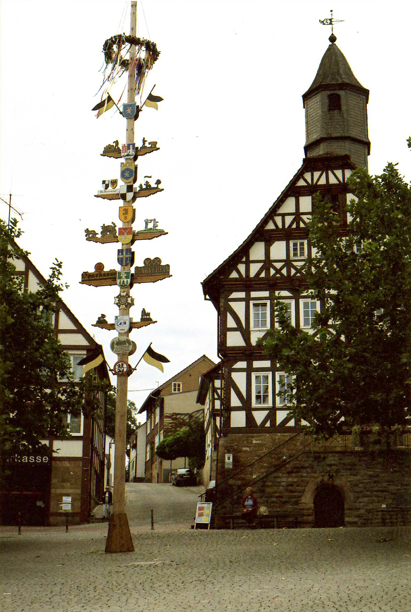 Townhall and maypole at Sontra, Hesse, Germany